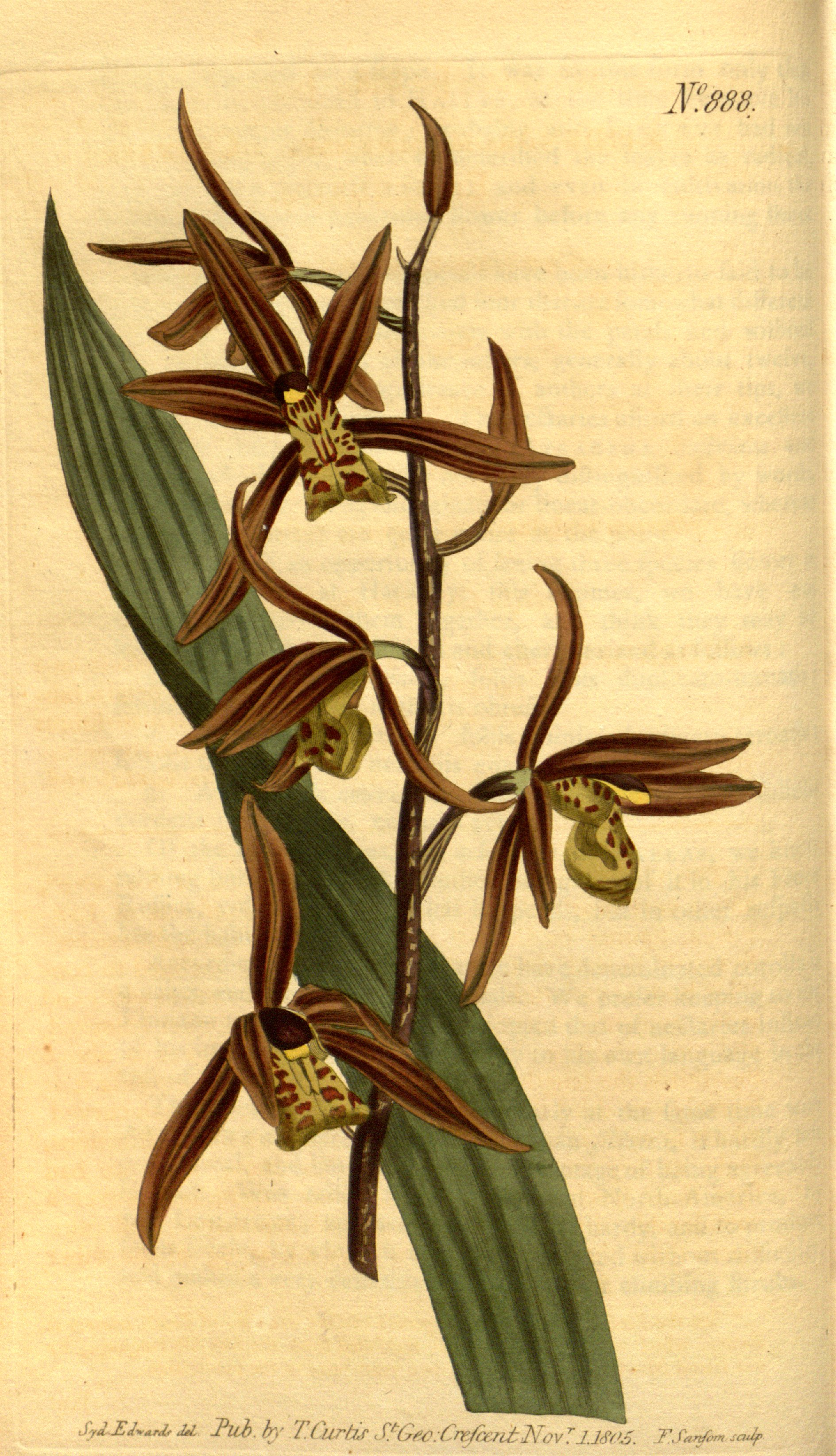 Illustration of Cymbidium sinense (as syn. Epidendrum sinense)